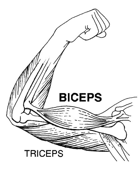 line art drawing